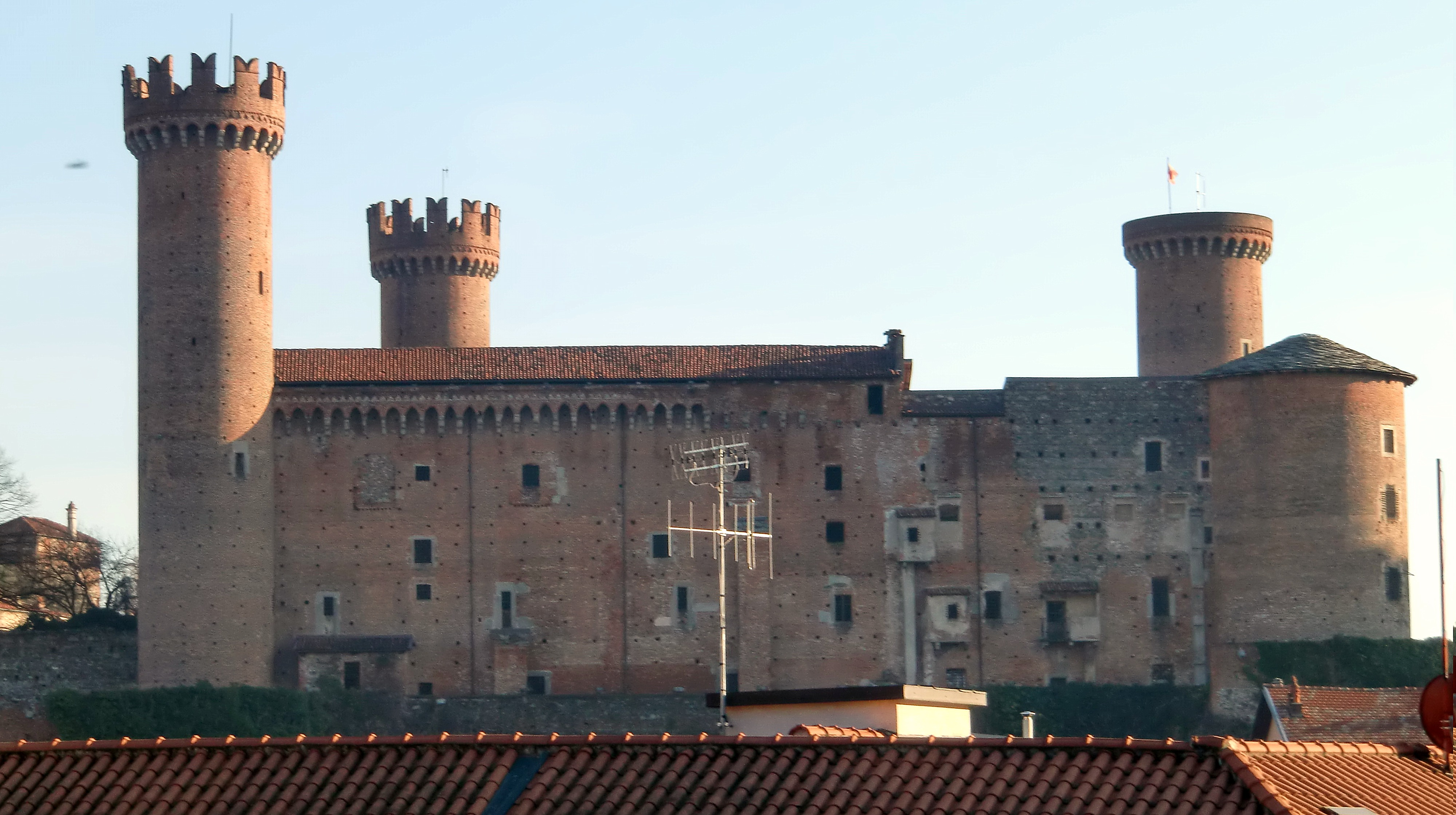 Ivrea, the castle (XIV century), view of the north side